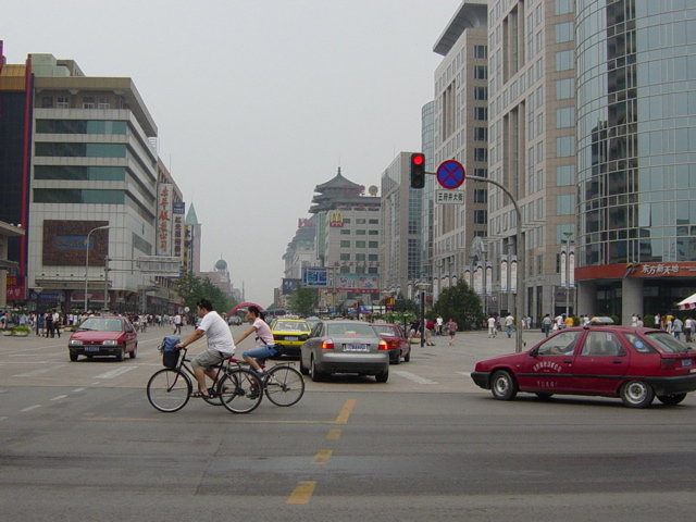 Wangfujing Nankou.